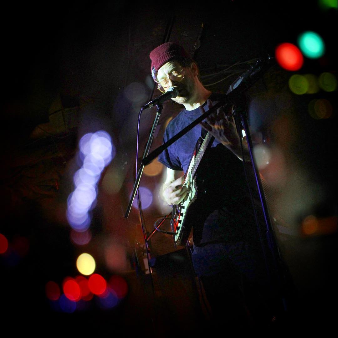 Astral Swans, live At Broken City, May 18th, 2018